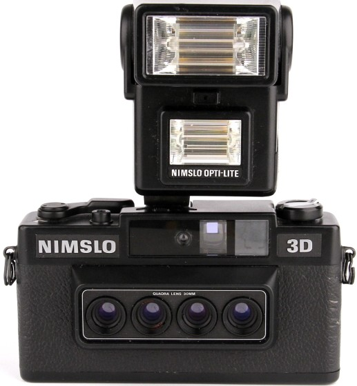 Nimslo camera and flash,with extraneous white space cropped out for better presentation as a small image